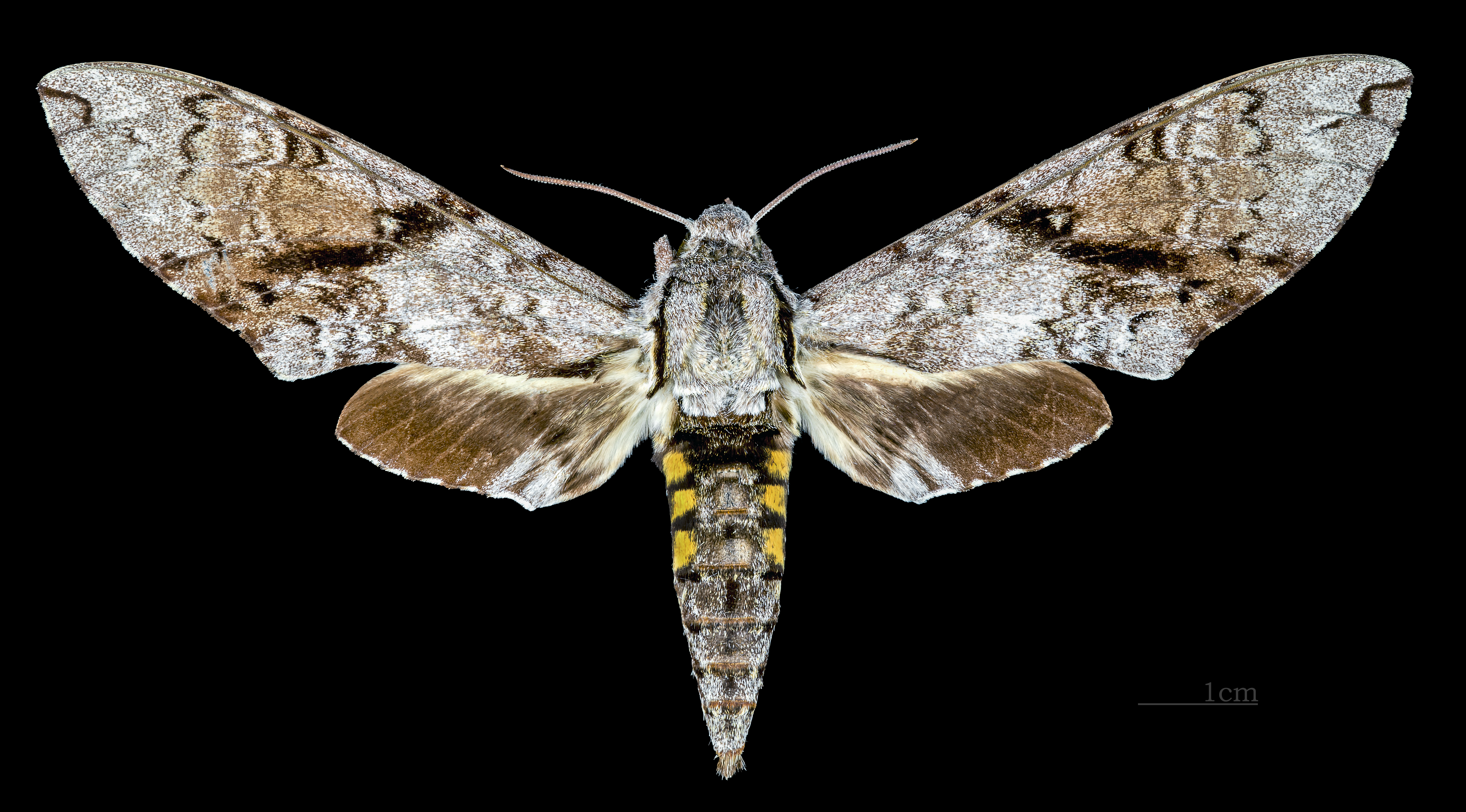 Manduca andicola - Dorsal side